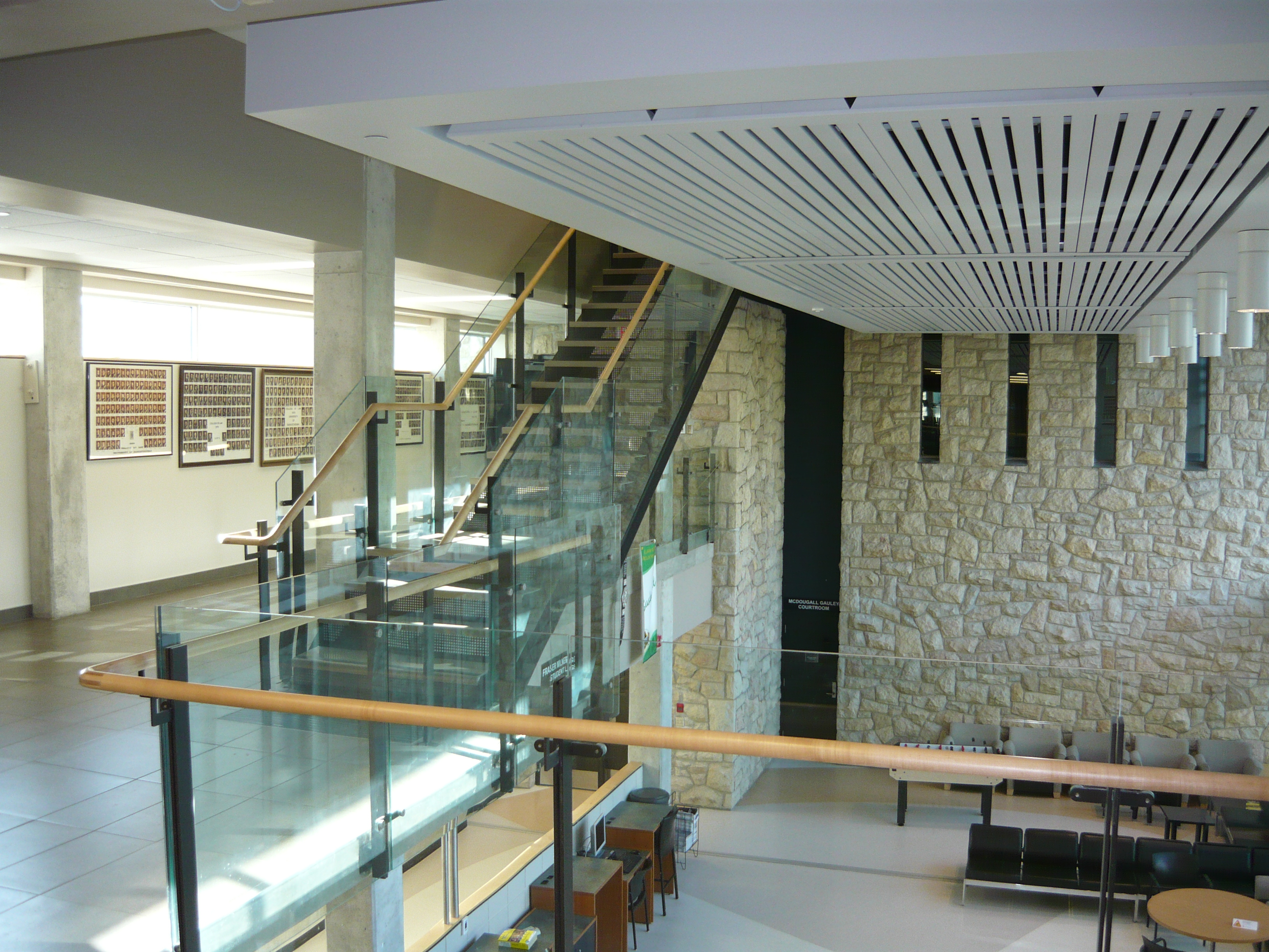 Atrium of the College of Law Building (in the addition which opened 2008), University of Saskatchewan, Saskatoon, Saskatchewan, Canada